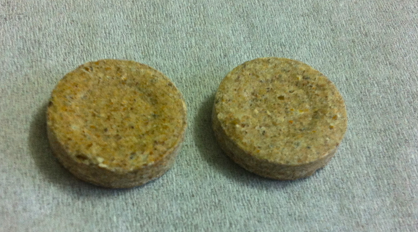 Hazmola tablets.